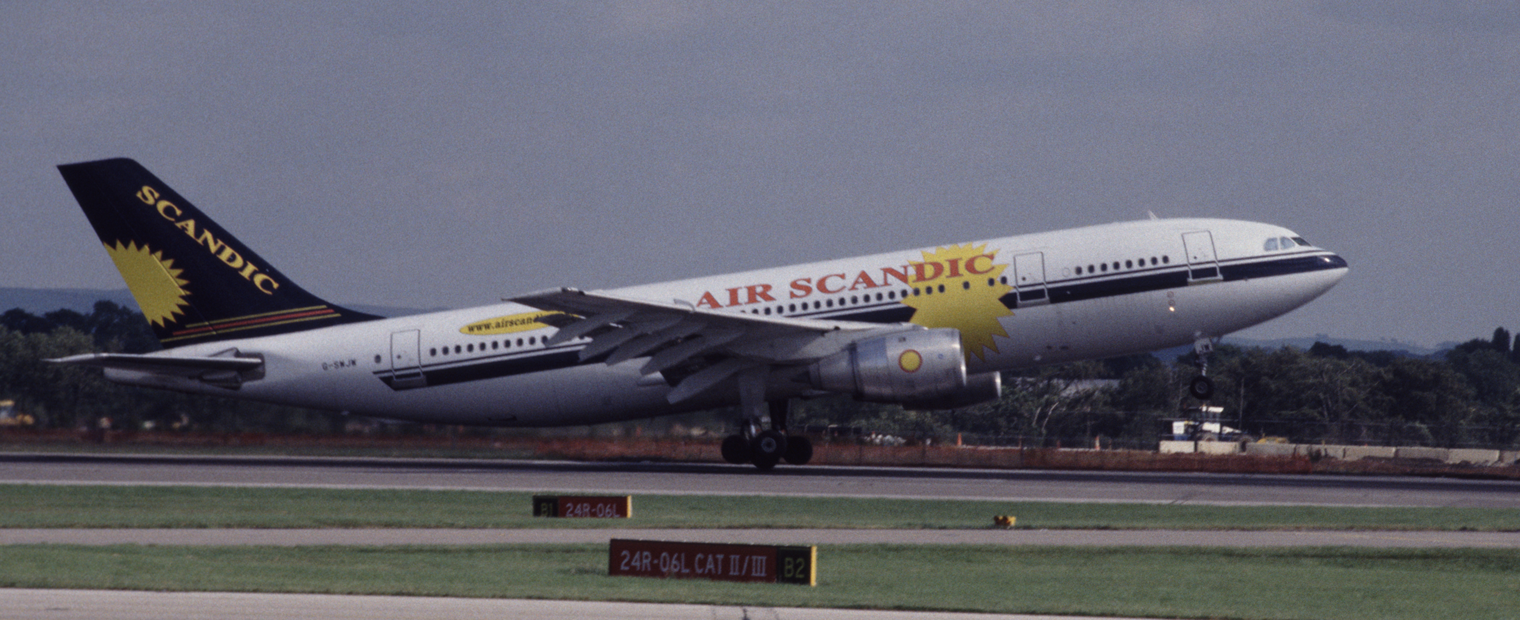 Airbus A300B4-203 registration G-SWJW of Air Scandic phtographed at Manchester airport in July 2000